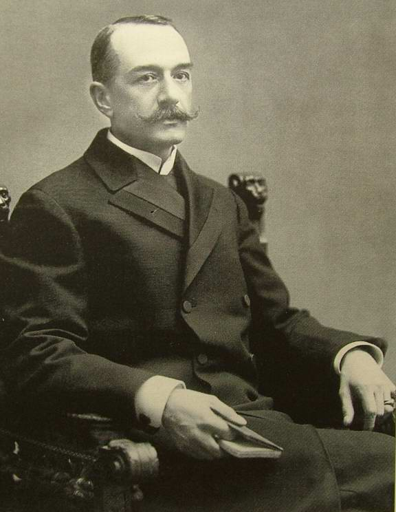 Protopopov Alexandr (1866-1918) Ministr of Russia (1916-1917)